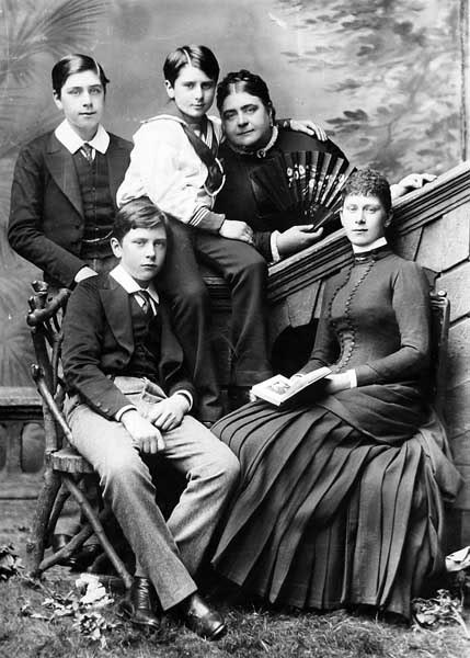 Princess Mary Adelaide of Cambridge, Duchess of Teck, with her family, including the future Queen Mary